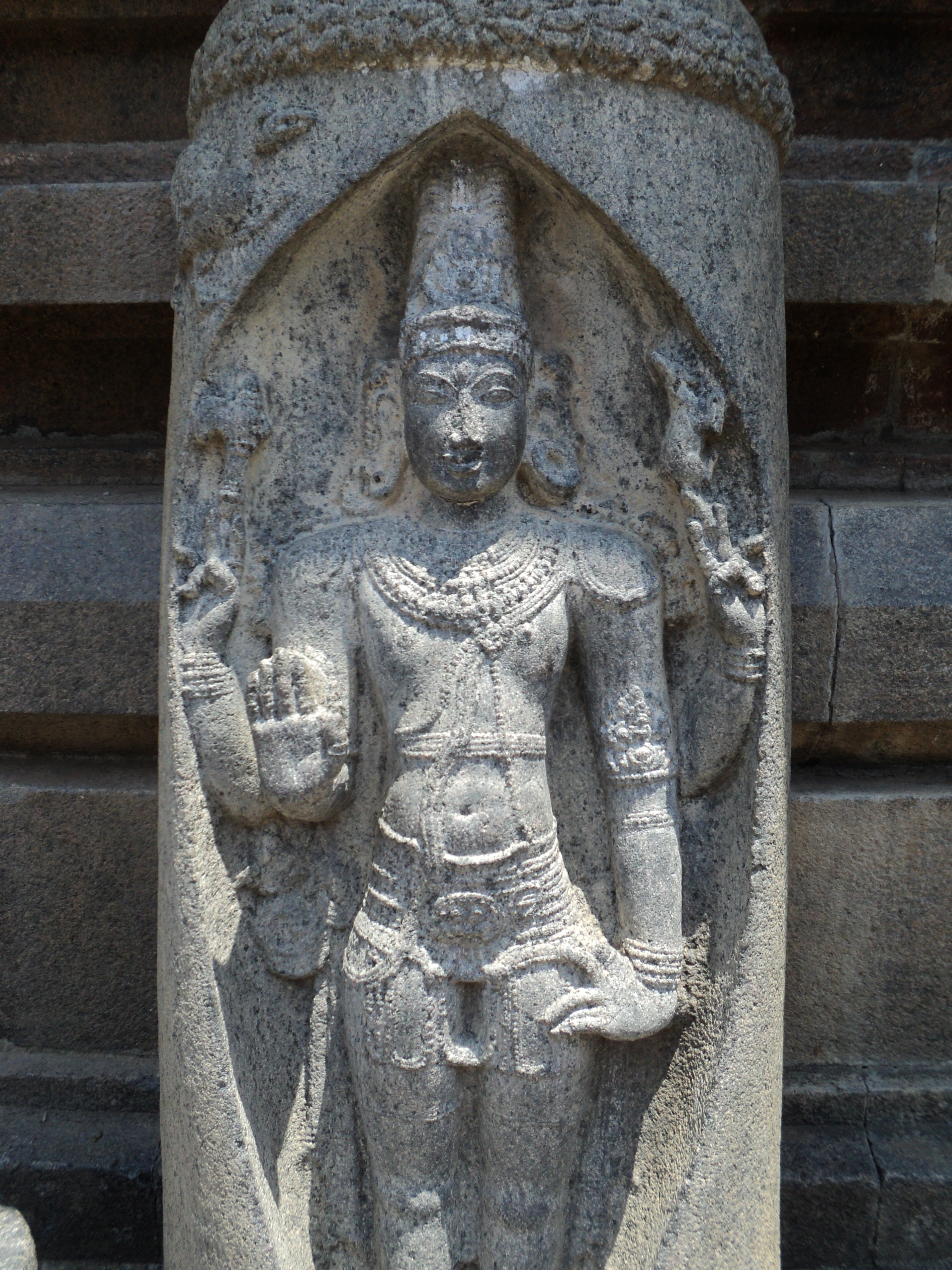 stone sculpture